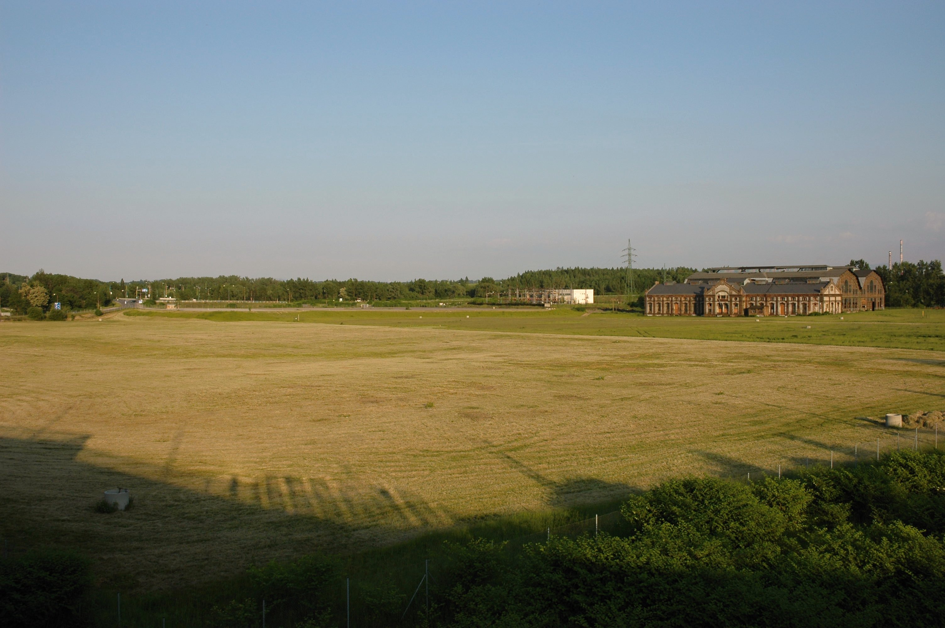 Place of former Karolina coking plant, Ostrava, the Czech Republic